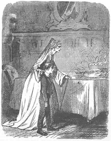 Miss Havisham's wedding-cake, by John McLenan